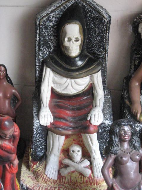 Exu Tata Caveira